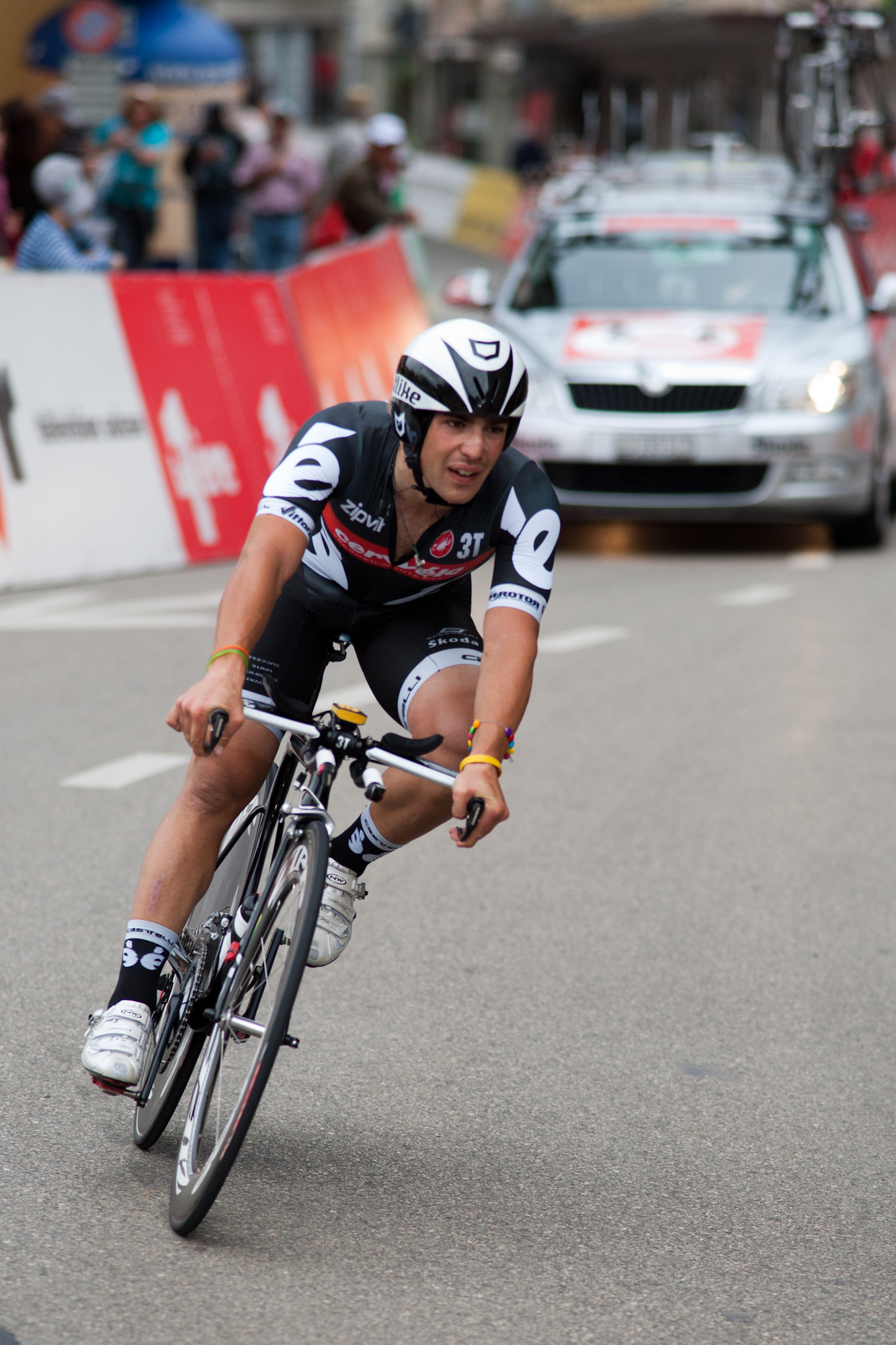 Davide Appollonio during the 3rd stage of the Tour de Romandie 2010.